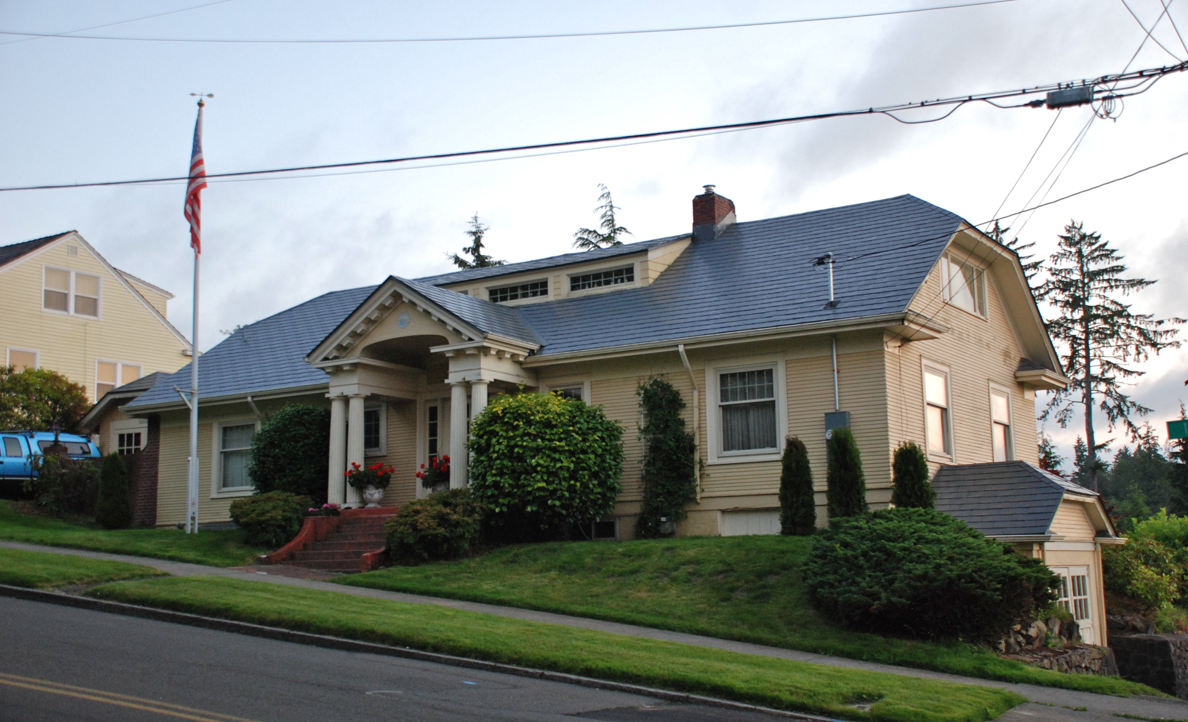 The Robert Rensselaer Bartlett House is a house in Astoria, Oregon, that is listed on the U.S. National Register of Historic Places.